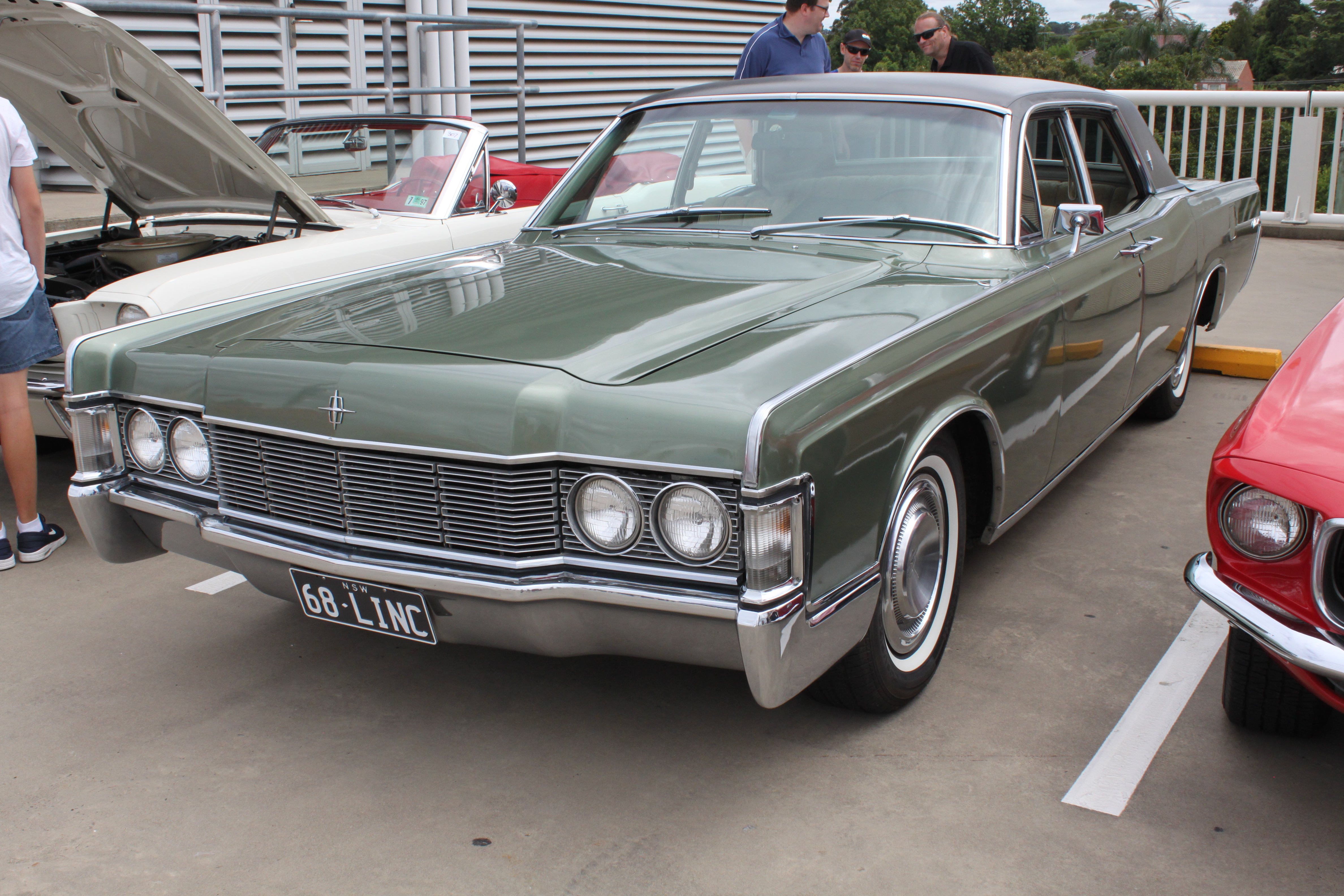 All American Car Show, Castle Hill NSW, January 2016